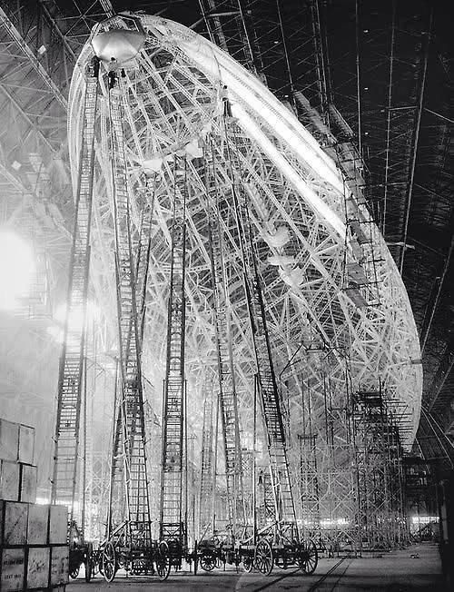 Rigid airship under construction. Airdock, Akron, Ohio, c:1930